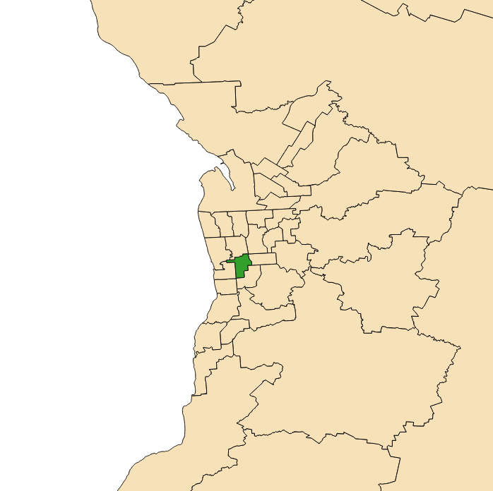 Electoral district 2018 boundaries shown in green